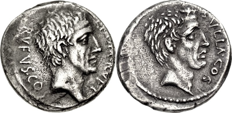 Roman republic: Q. Pompeius Rufus. 54 BC. AR Denarius (17 mm, 3.87 g, 6h). Rome mint. Bare head of the consul Q. Pompeius Rufus right Bare head of Sulla right.